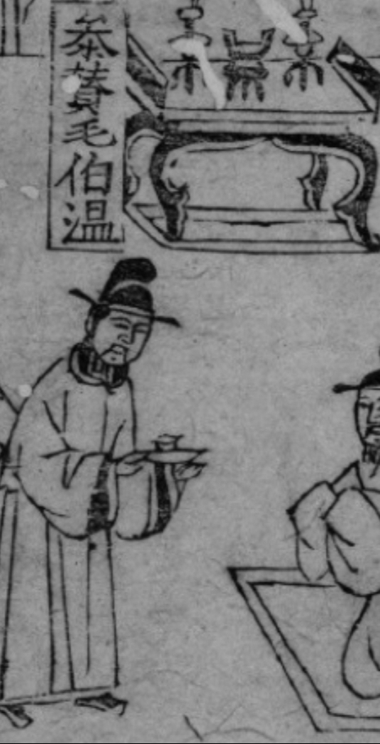 Mao Bo Wen, politician of the Ming Dynasty.